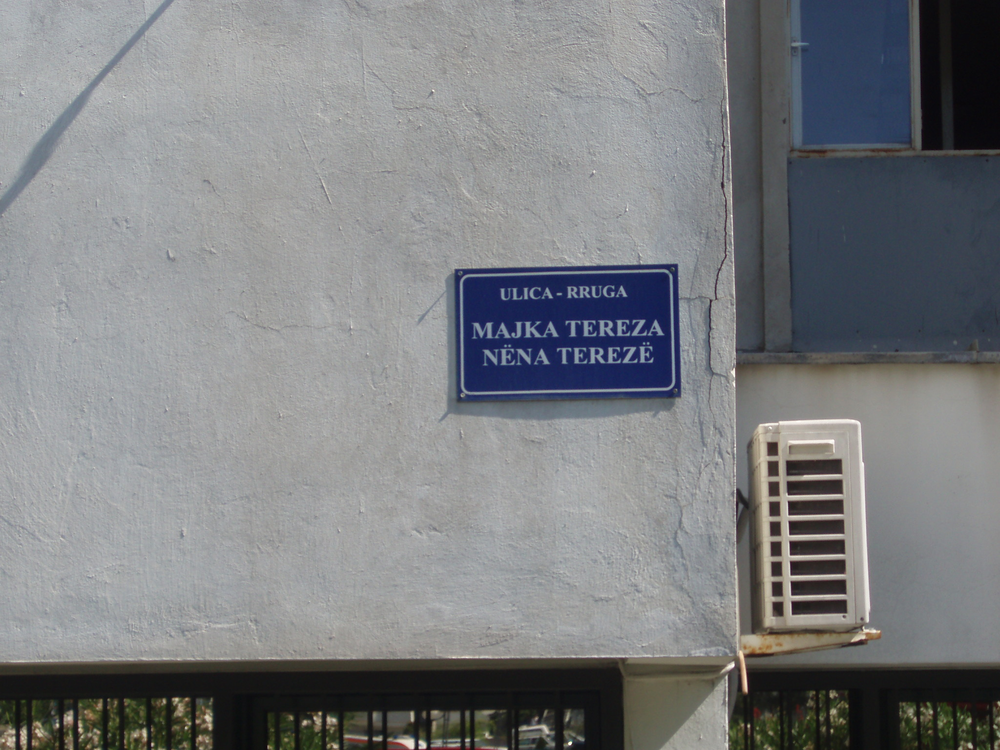 A bilingual Albanian-Serbian street sign in Ulqin, Montenegro